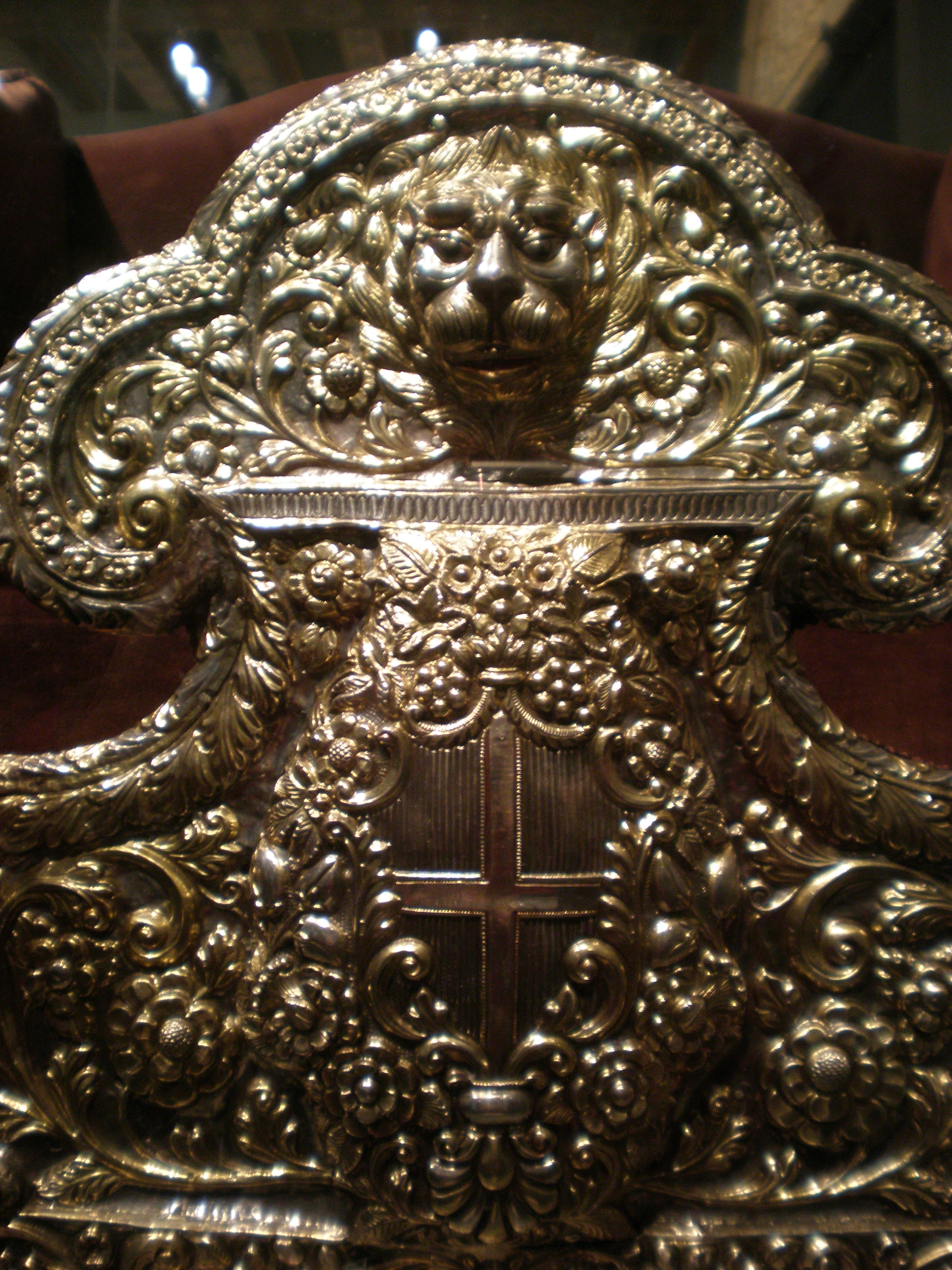 Detail of a silver elephant throne, approx. 1870-1920, from perhaps Ambikapur, capital of Surguja State, Chhattisgarh, India. On display at the Asian Art Museum in San Francisco, California. 2001.12